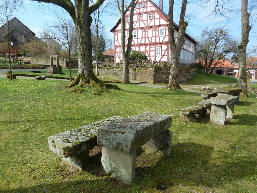 Historical court square in Freiensteinau (Hesse, Germany), in the background the rectory.